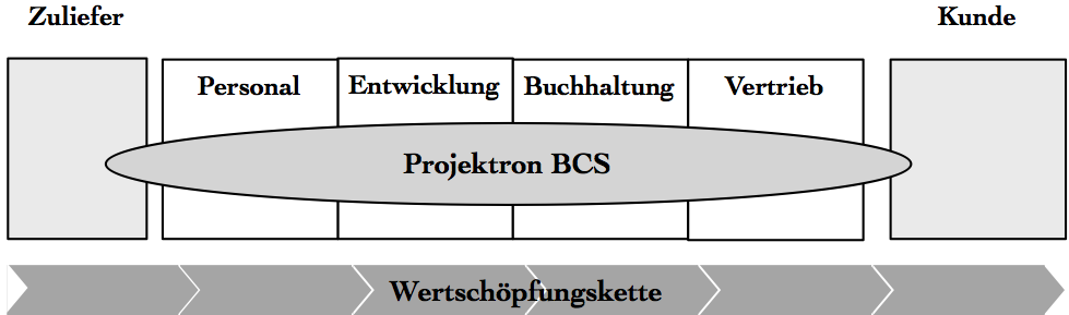 This picture shows the value-adding features of Projektron BCS.